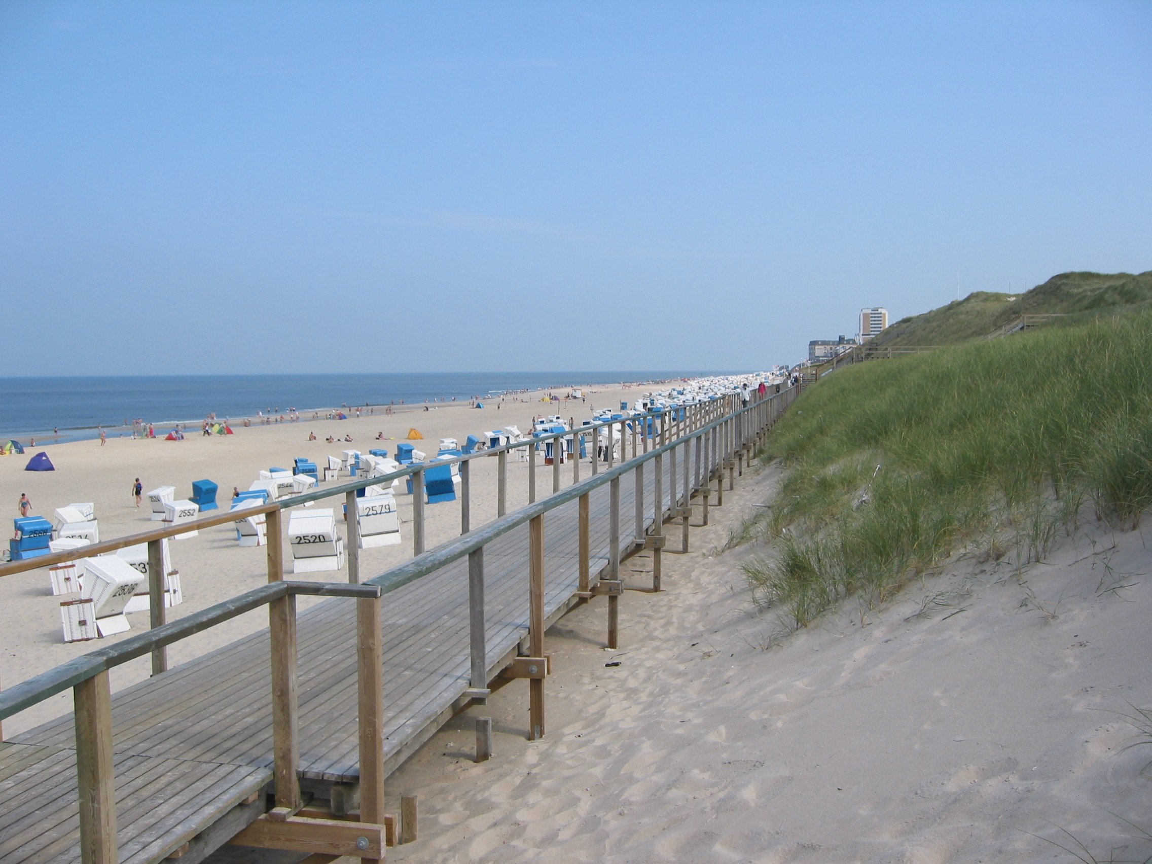 Beach near Westerland, Sylt, Germany (August 2002).